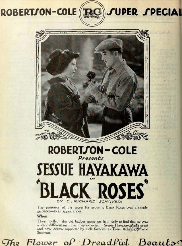 Advertisement for the American drama film Black Roses (1921) with Tsuru Aoki and Sessue Hayakawa, on page 6 of the May 29, 1921 Film Daily.